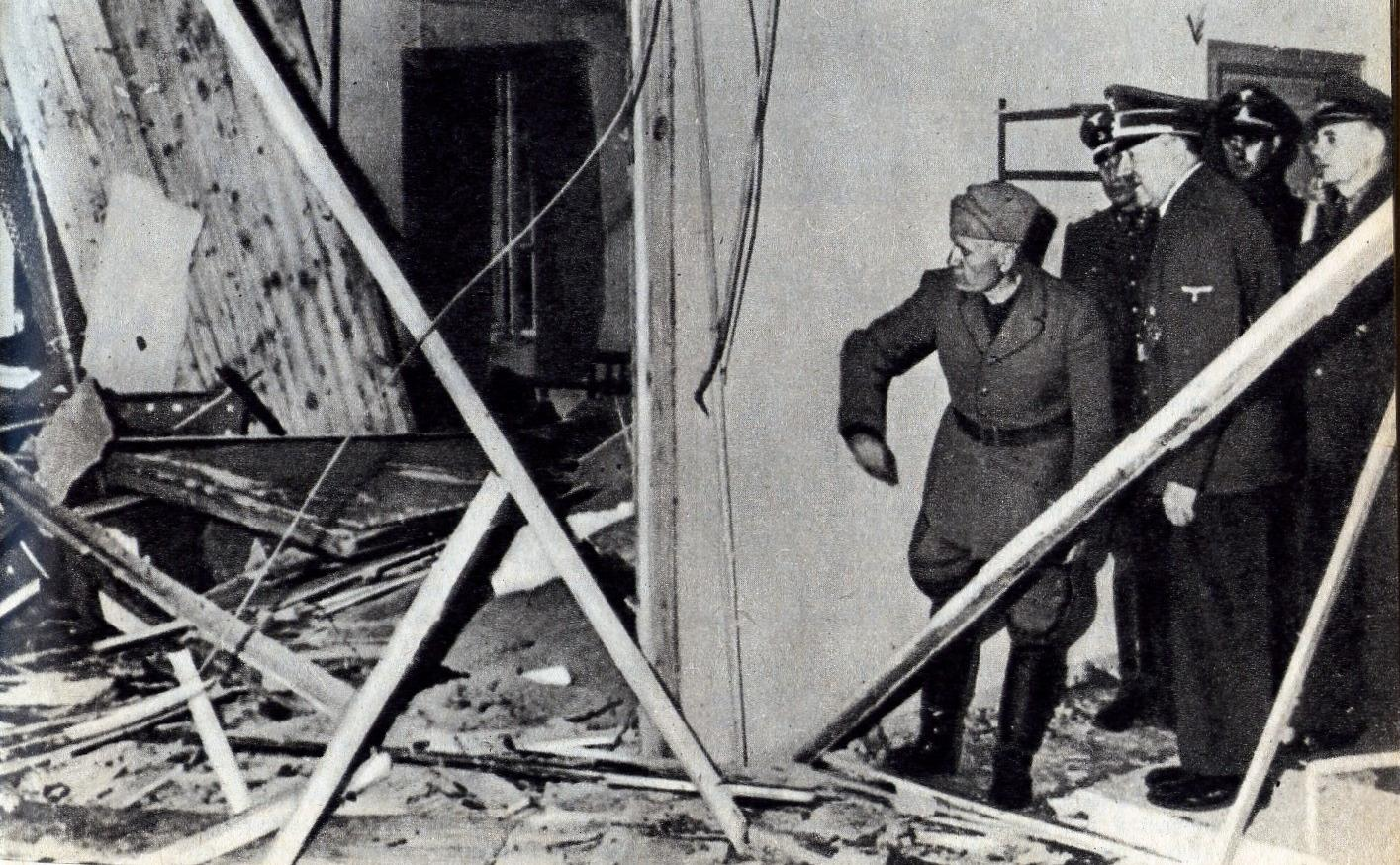 20 july attenat The view of destroyed interior of briefing room in Hiler's headquatter Wolfsschanze near Rastenburg (Ketrzyn) in East Prussia. (from left to right: Benito Mussolini, unknown, Adolf Hitler, unknown, Joachim von Ribbentrop)